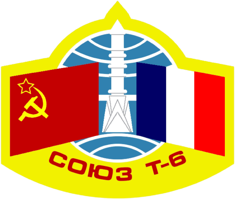 Soyuz T-6 patch